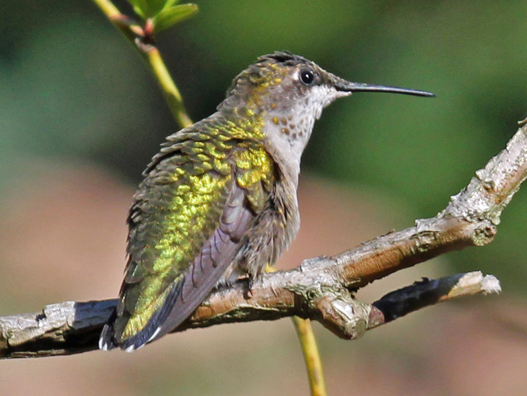 Ruby-throated Hummingbird (Archilochus colubris) at the flower gardens of the Biltmore Estate in Asheville, North Carolina